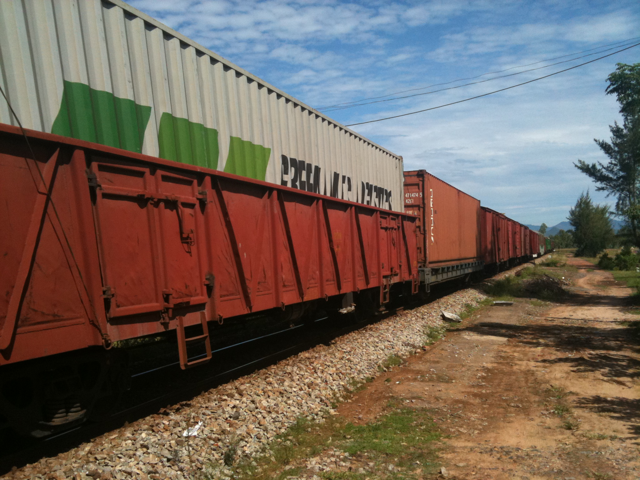 A northbound freight train passes on the North-South Railway in Hoa Vang District, Da Nang, Vietnam.